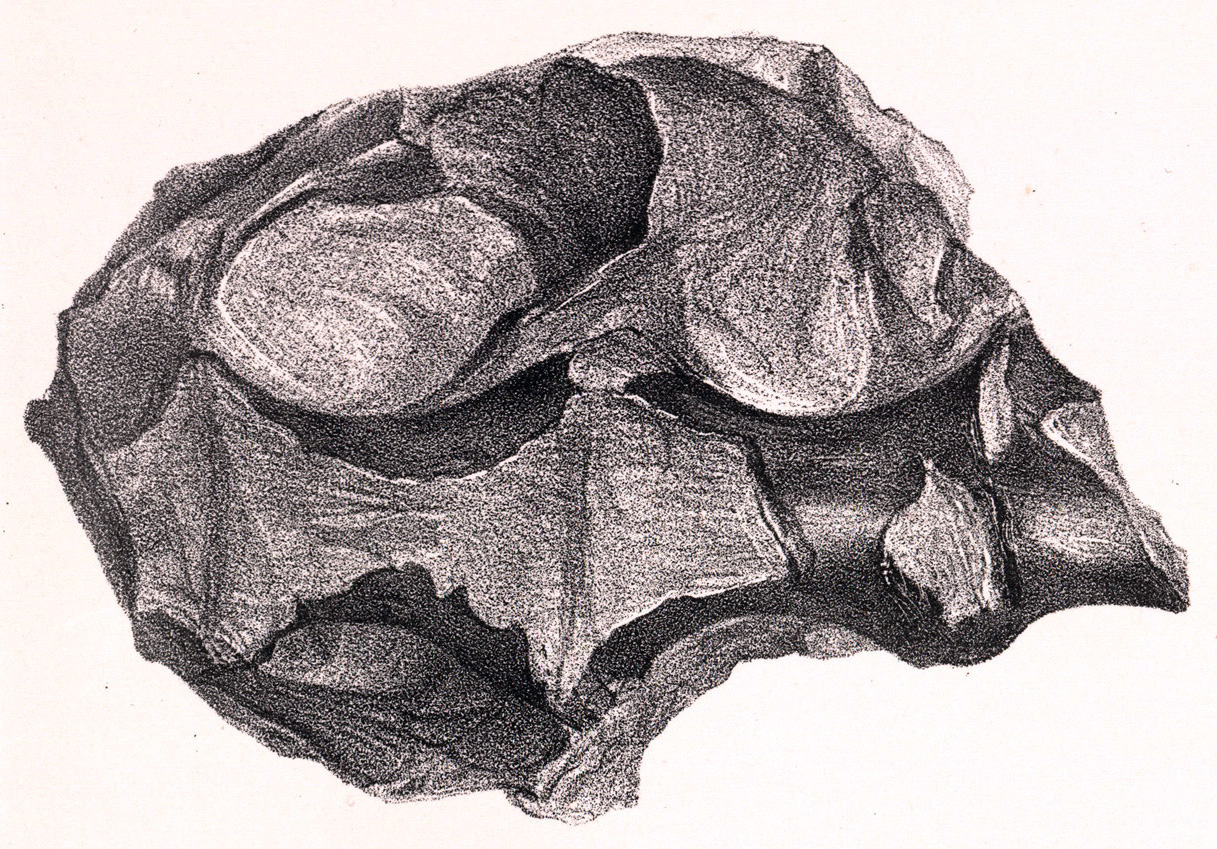 Under view of the third and fourth, with portions of contiguous anchylosed, sacral vertebræ of Hylaeosaurus (BMNH 2484). From the Wealden of Tilgate, Sussex. In the British Museum.